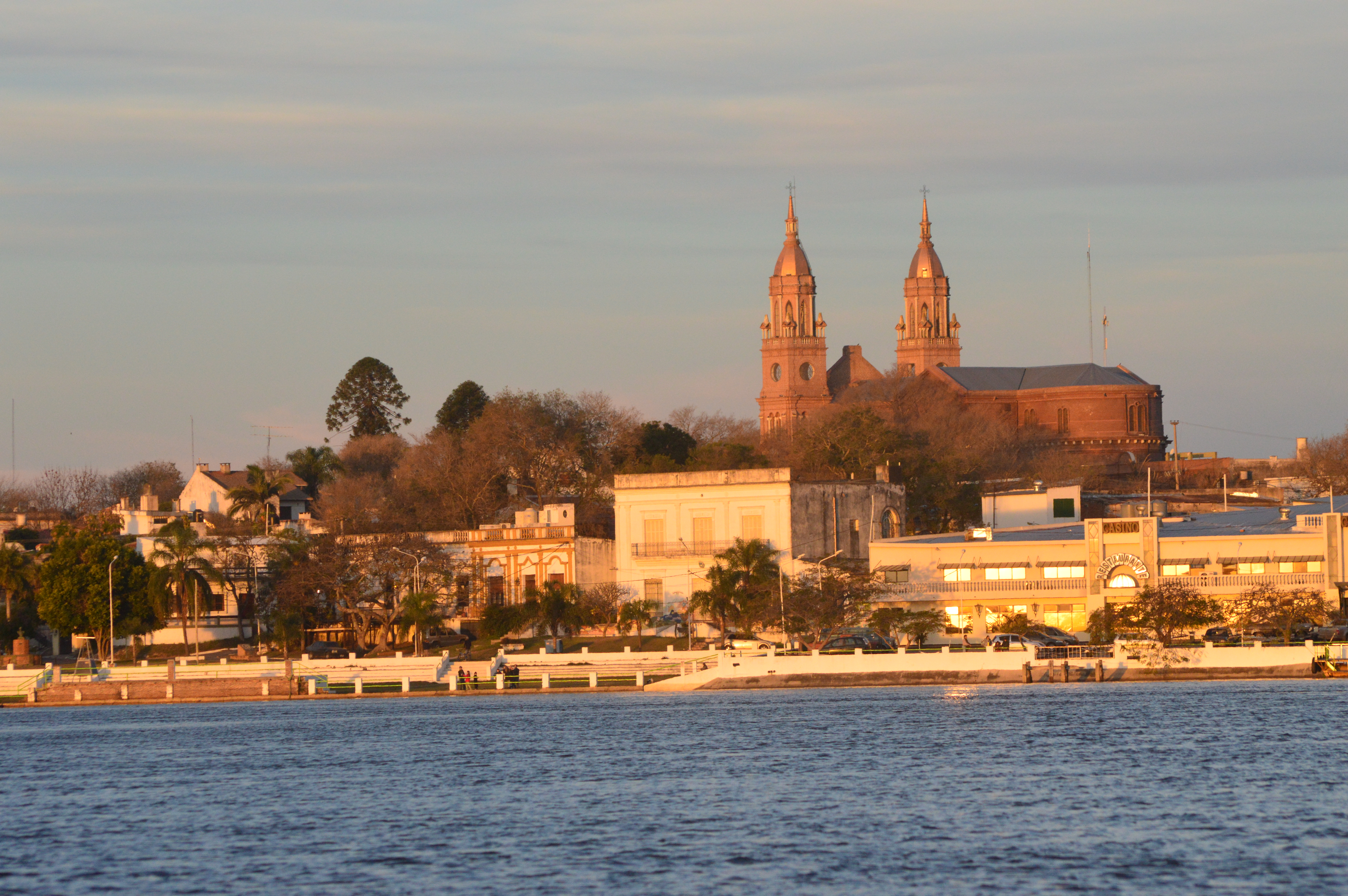 City of Esquina, Corriente Province, Argentina. View from the Corrientes river.